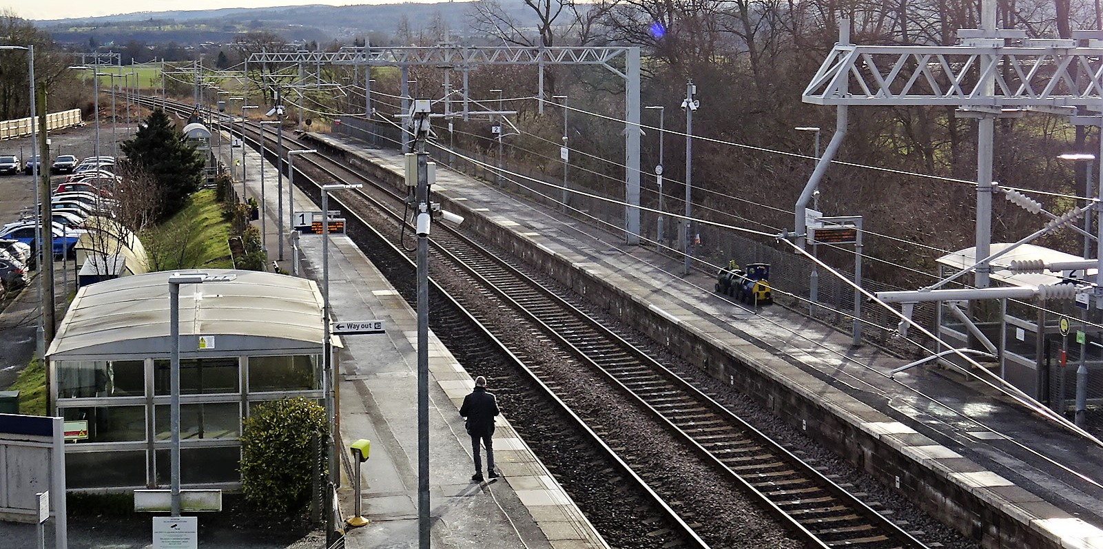 Bridge of Allan railway station, Sterling. View south from the road overbridge of the 1985 station.